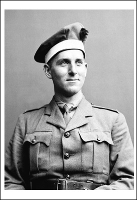 Portrait of Thomas Dinesen in the uniform of the Black Watch, in which he served during World War I.